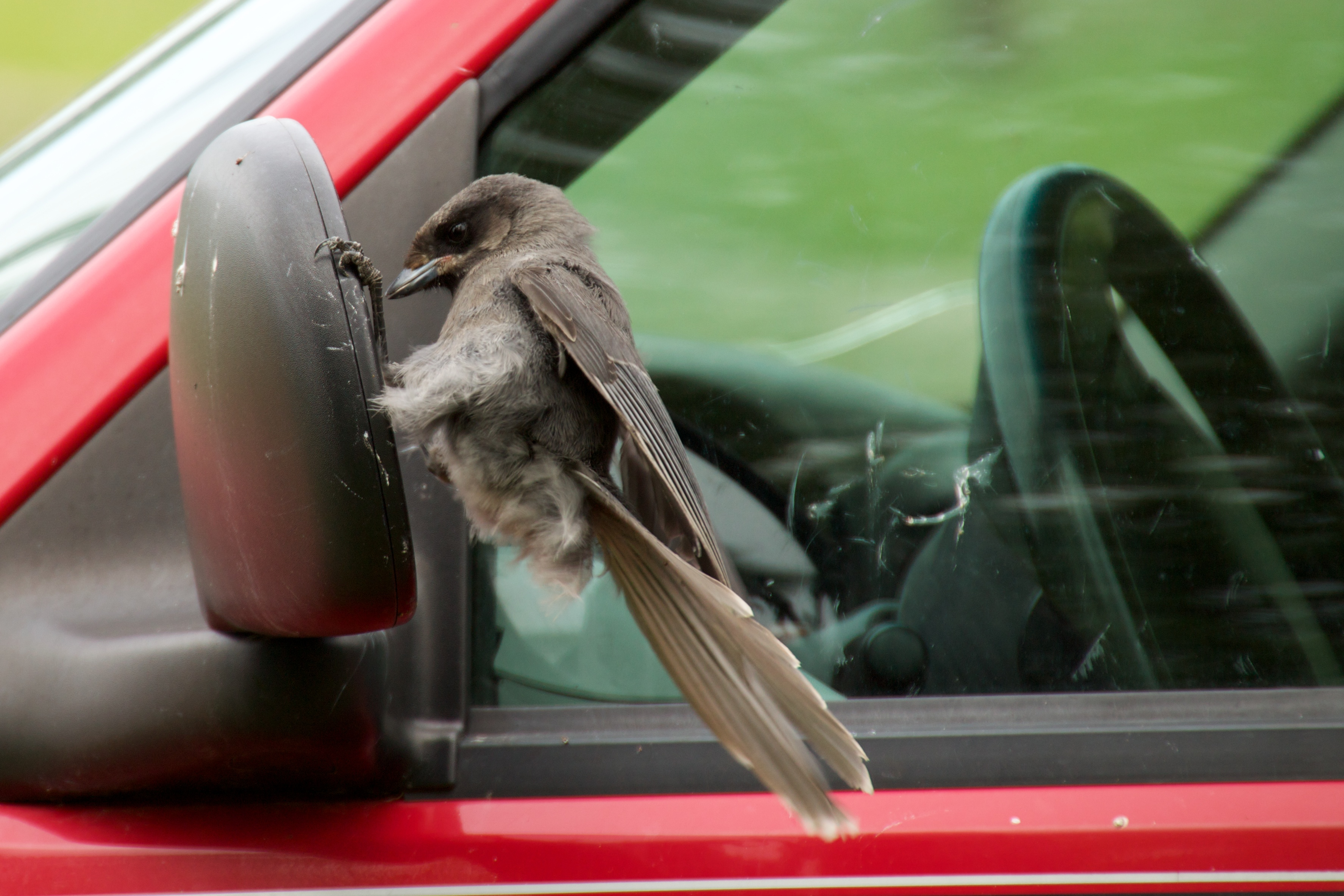 Juvenile Perisoreus canadensis in a battle with its image in the mirror. British Columbia, Canada.